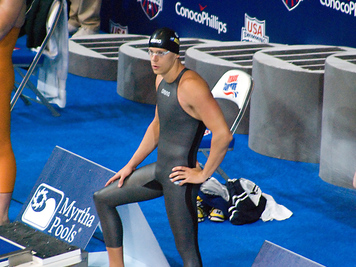 Brazilian swimmer César Cielo Filho at the 2009 US World Championnships Trials (Indianapolis)